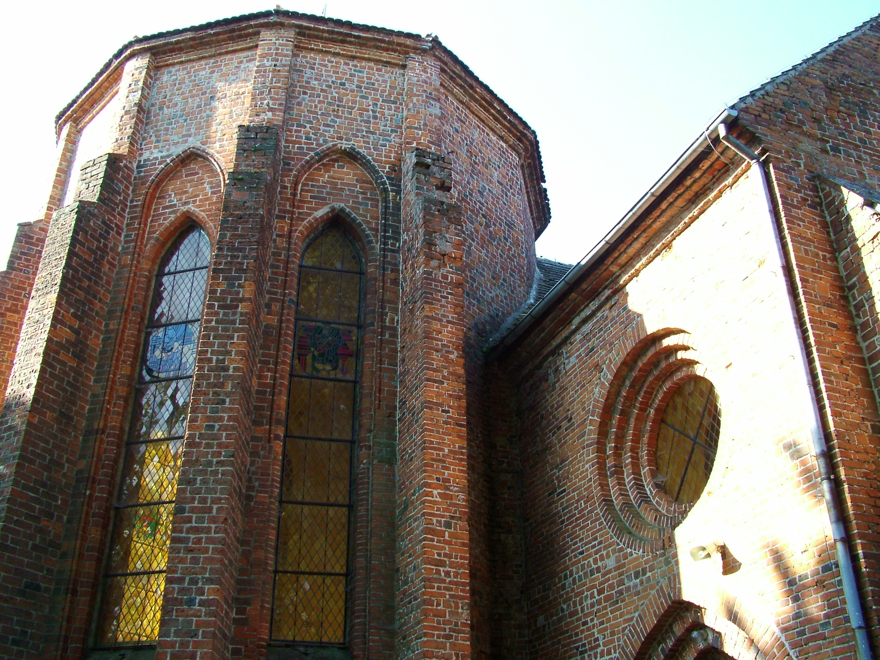 BIERZWNIK ruins of a monastery